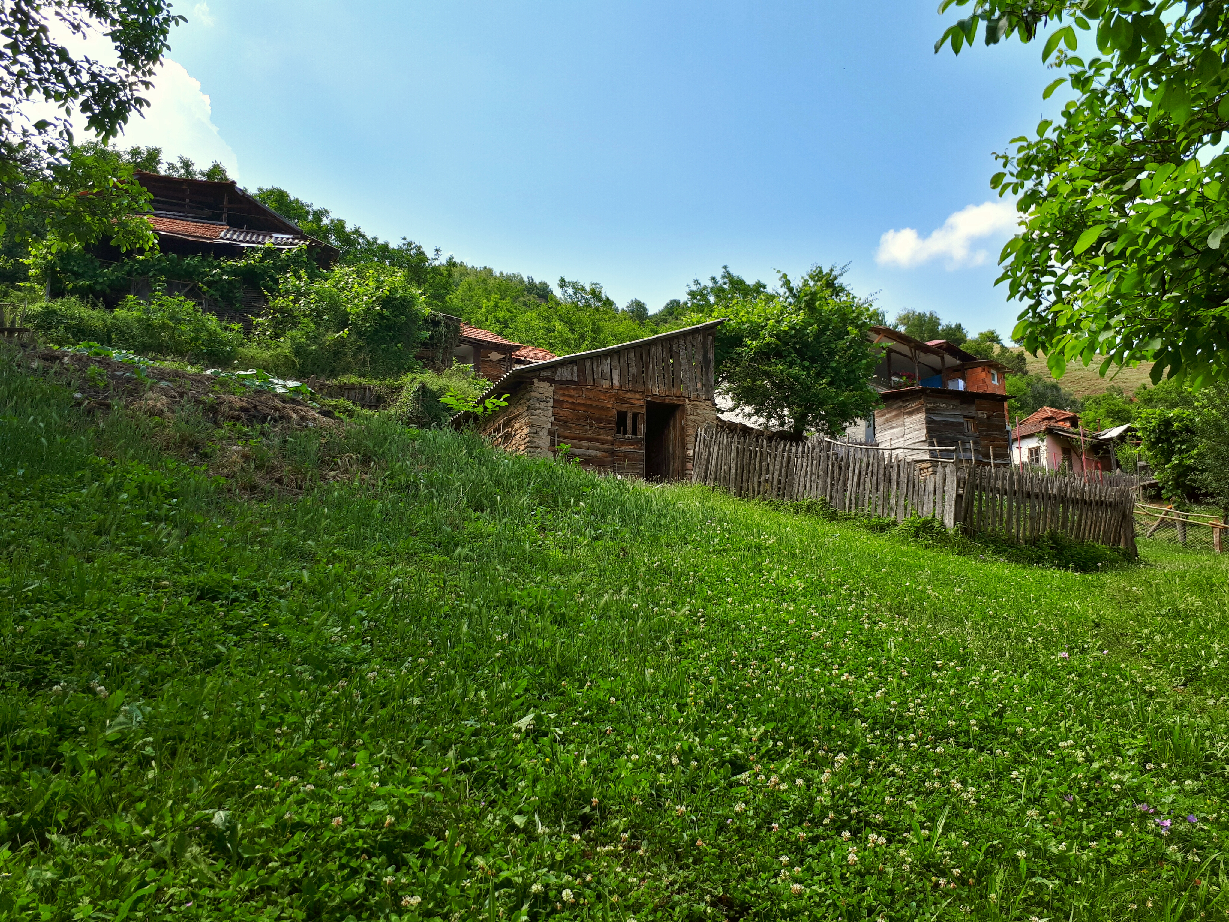 Houses in the village Kovač